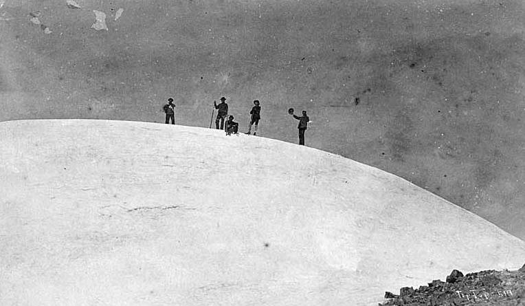 John Muir and climbing party at summit of Mount Rainier, 1888. On verso of image: The summit of Mt. Rainier, 1888. Left to right: D.W. Bass, P.B. Van Trump, John Muir, N.O. Booth, E.S. Ingraham. Photograph by A.C. Warner. A.C. Warner, 7534 19th Ave. N.E.